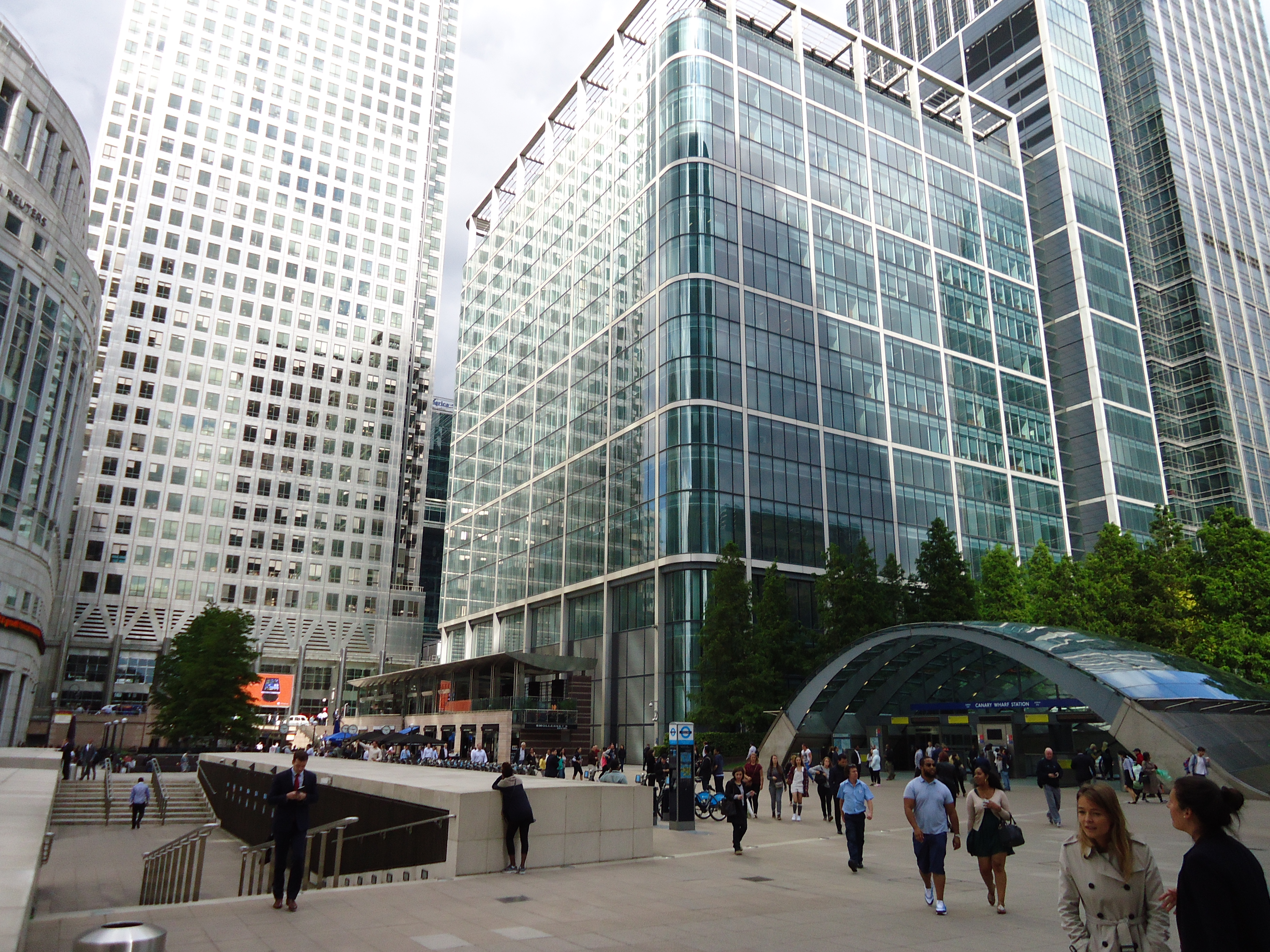 Docklands London